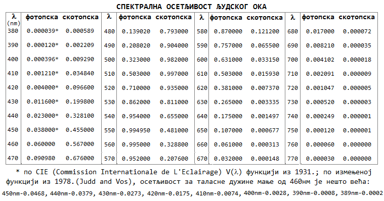 СПЕКТРАЛНА ДЕЛОТВОРНОСТ СЈАЈА ЉУДСКОГ ОКА